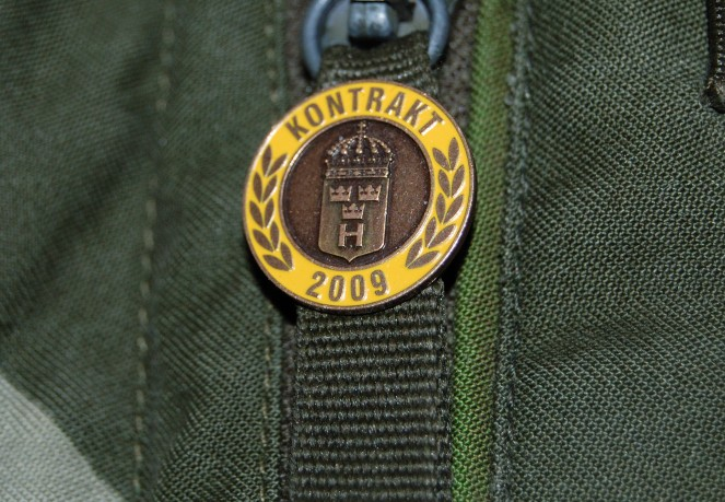 Yearmark of fullfilling the yearly contracted time in the swedish home guard.